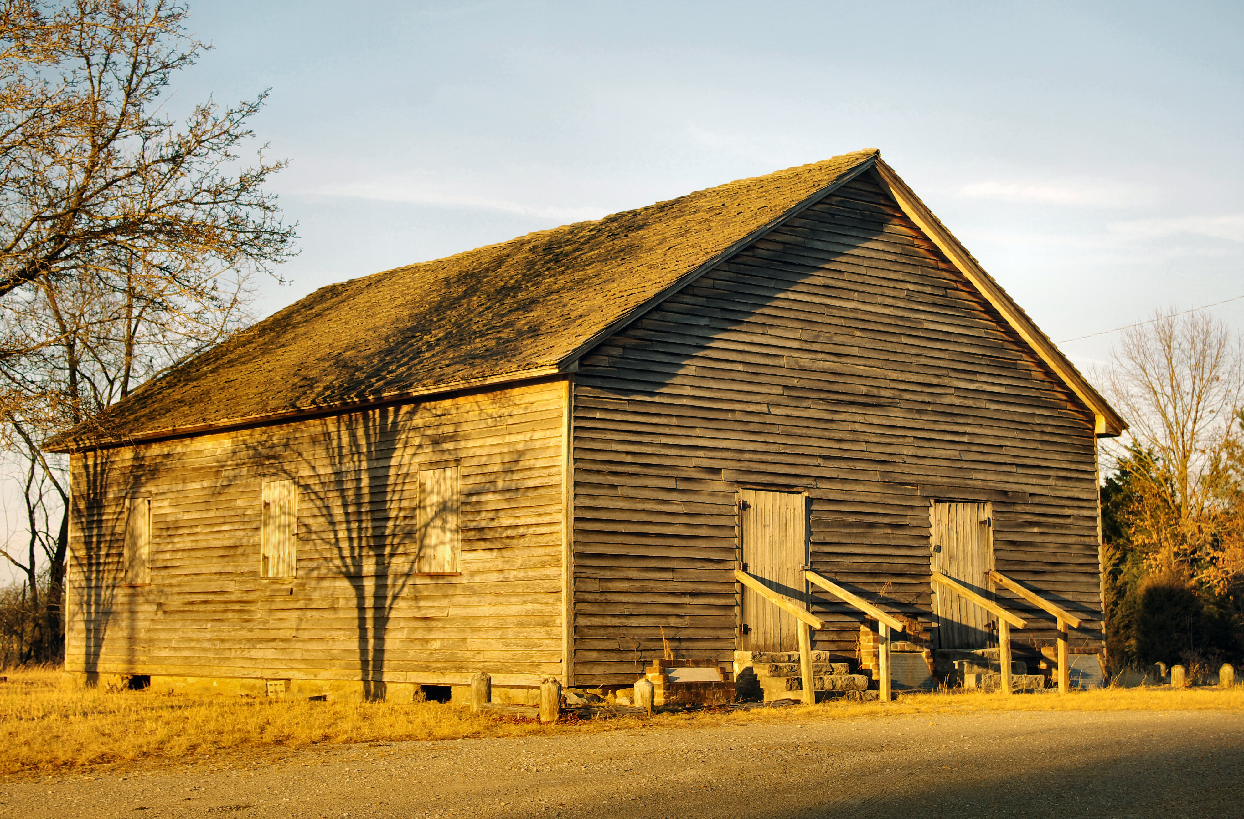 The Old Philadelphia Meeting House in the Vervilla community of Warren County, Tennessee, United States, built 1830, restored in the mid-1980s